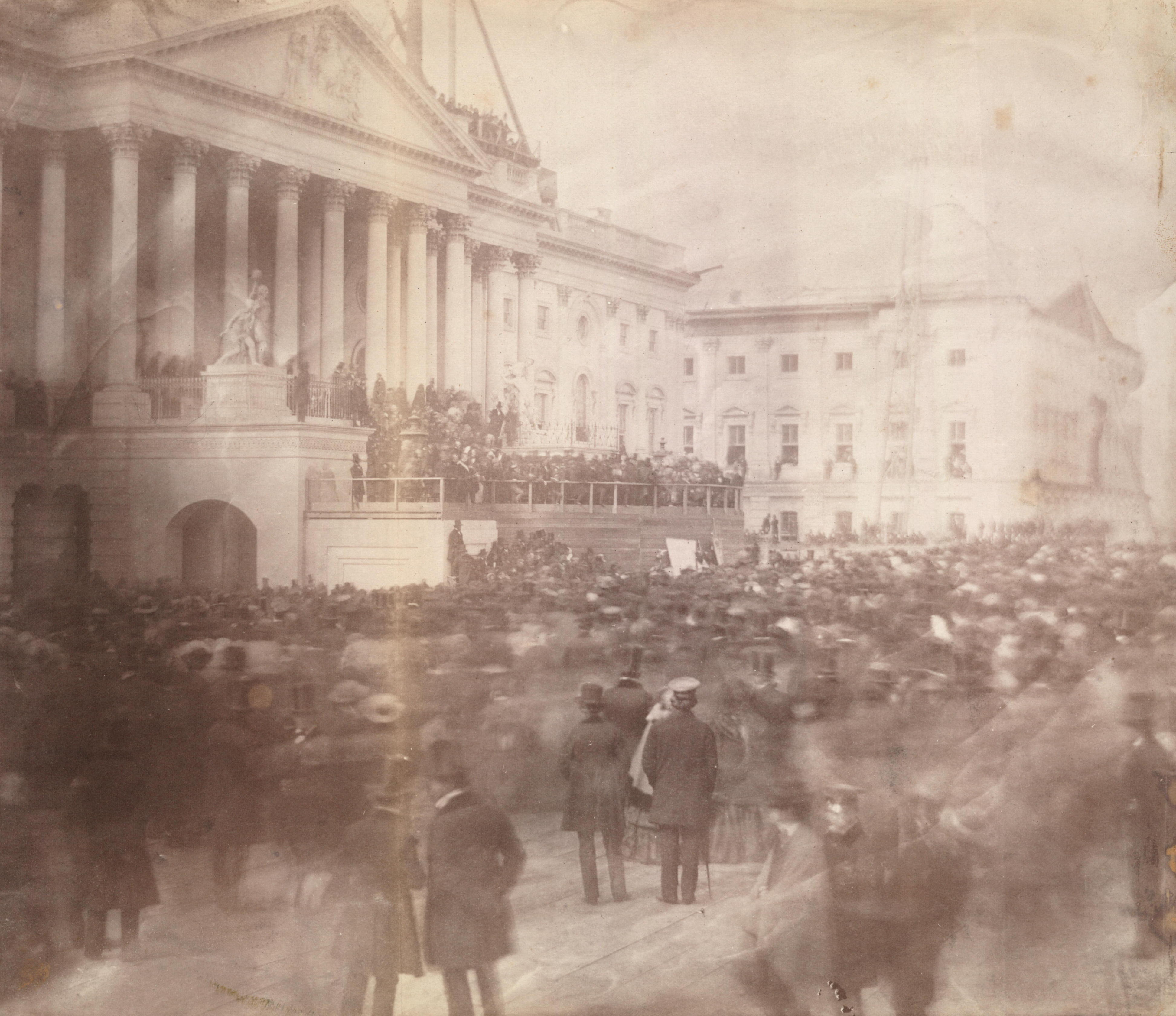 Photograph of James Buchanan's 1857 presidential inauguration at the US Capitol in Washington, D.C. First ever such photograph. More information from Library of Congress